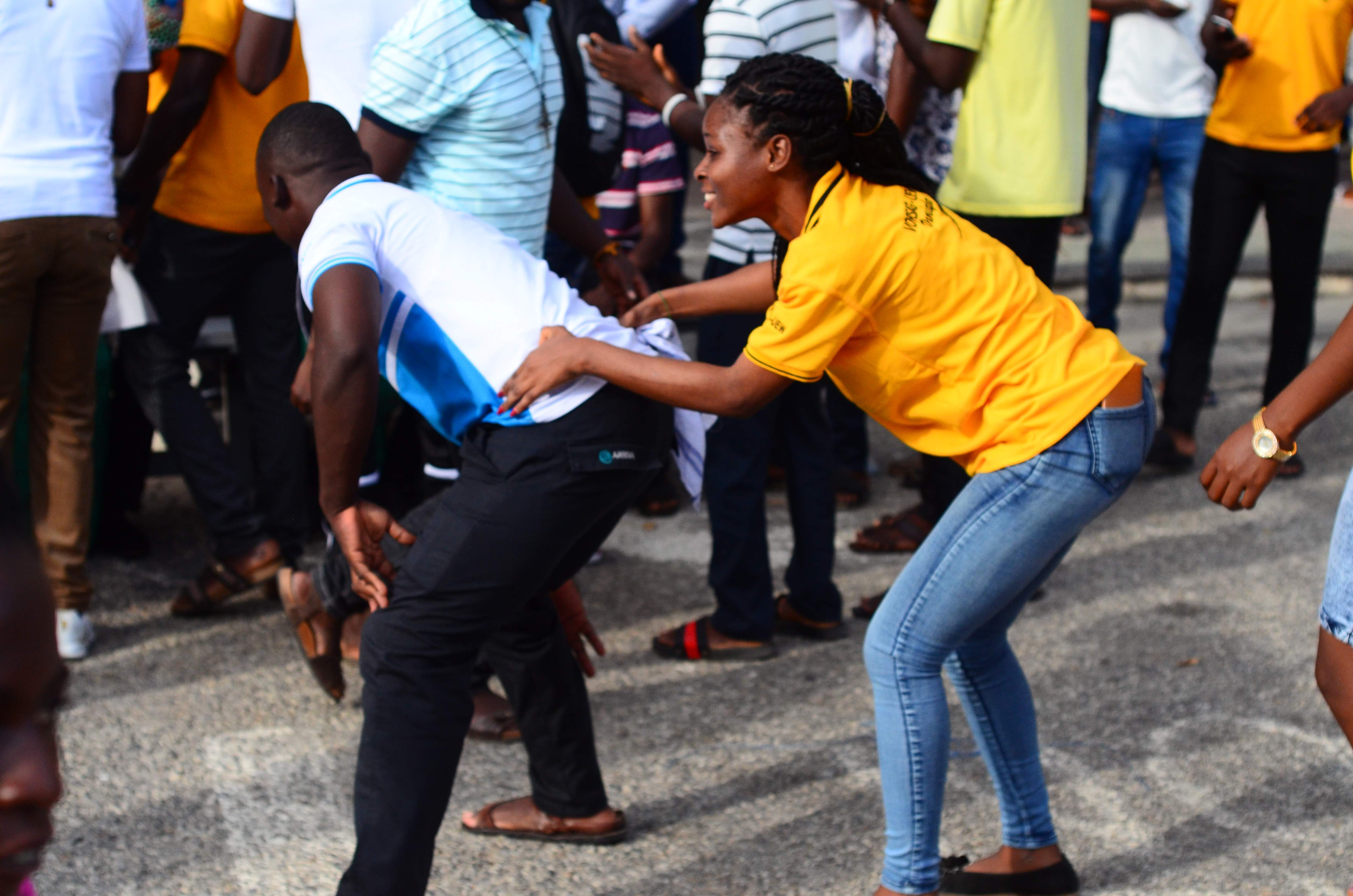 This is an image with the theme "Play" from: Ghana